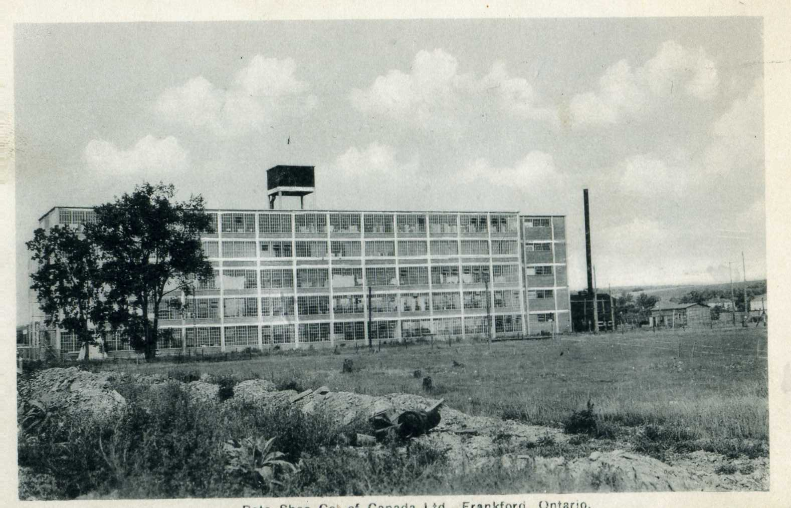 Batawa (the Bata village in Canada) was originally established in late 1939.